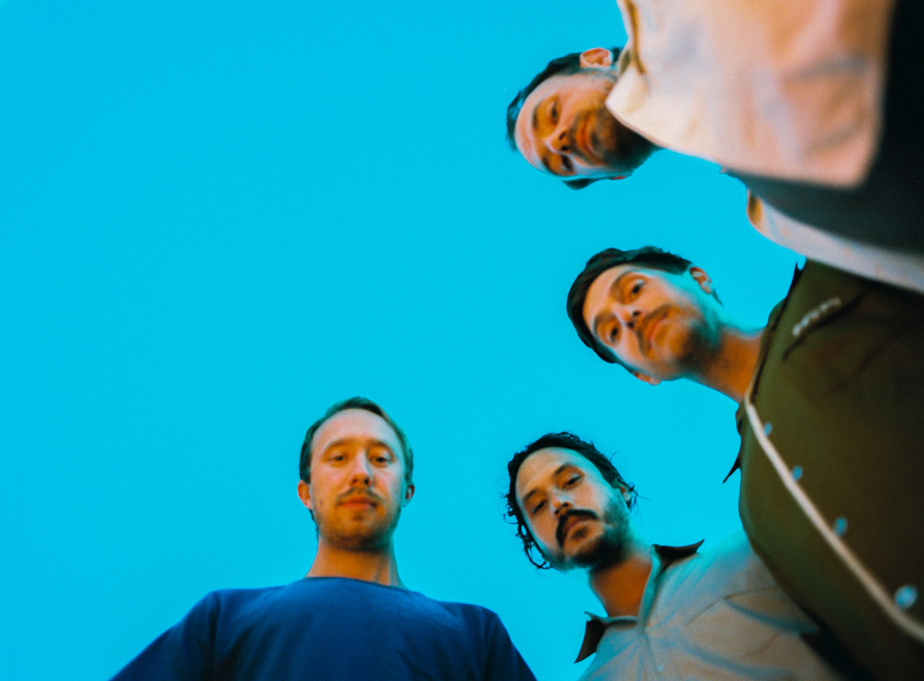 A photo of the band Wilderado